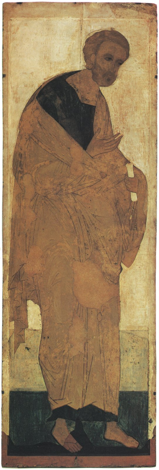 St. Peter Tempera on wood, 312x105x4, Russian Museum, Sankt Petersburg